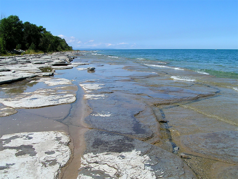 Craigleith Provincial Park, Ontario, Canada. These rocky shores of the Georgian Bay are home to fossils dating back over 450 million years.